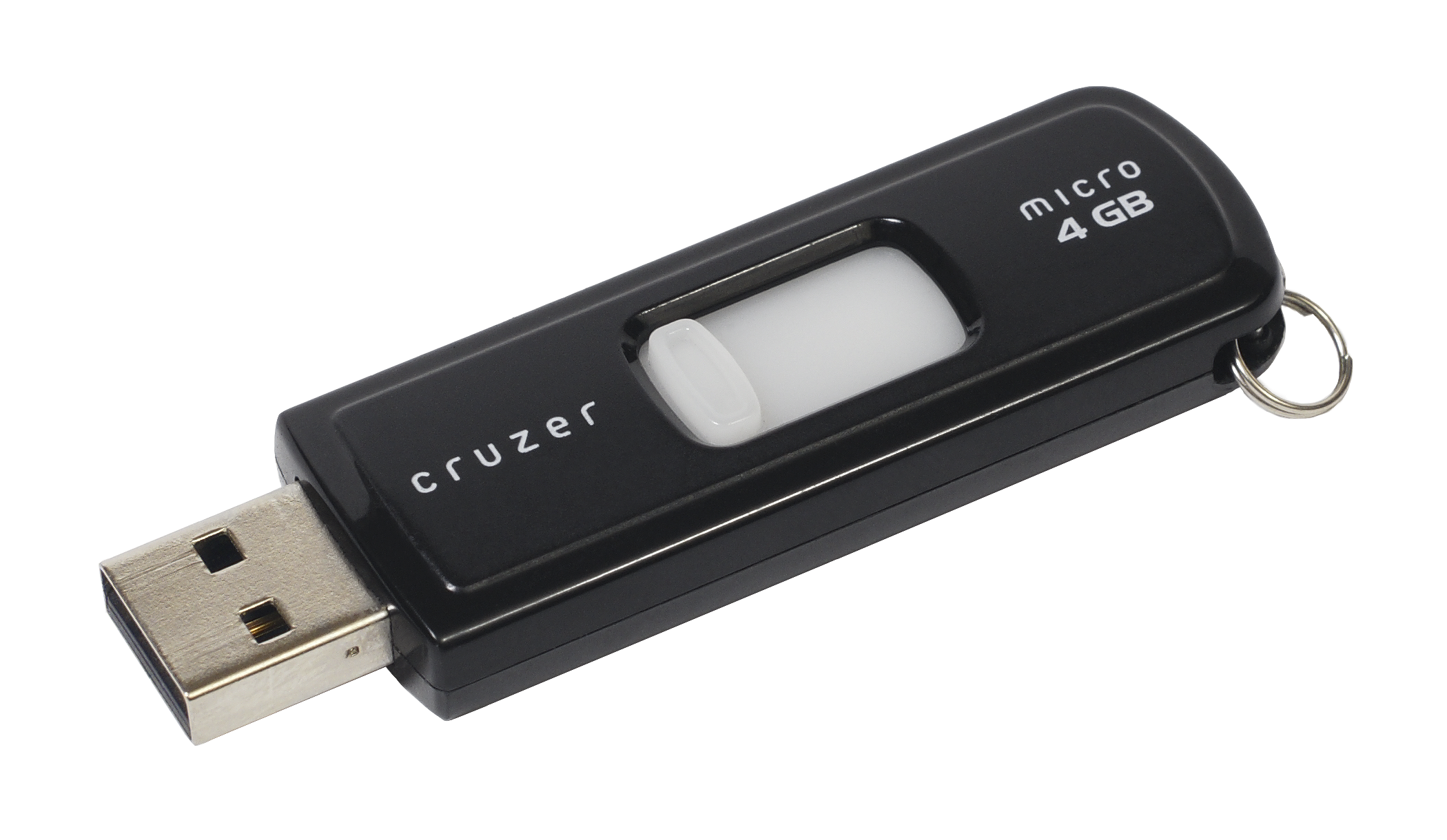 A SanDisk-brand USB thumb drive, SanDisk Cruzer Micro, 4GB.